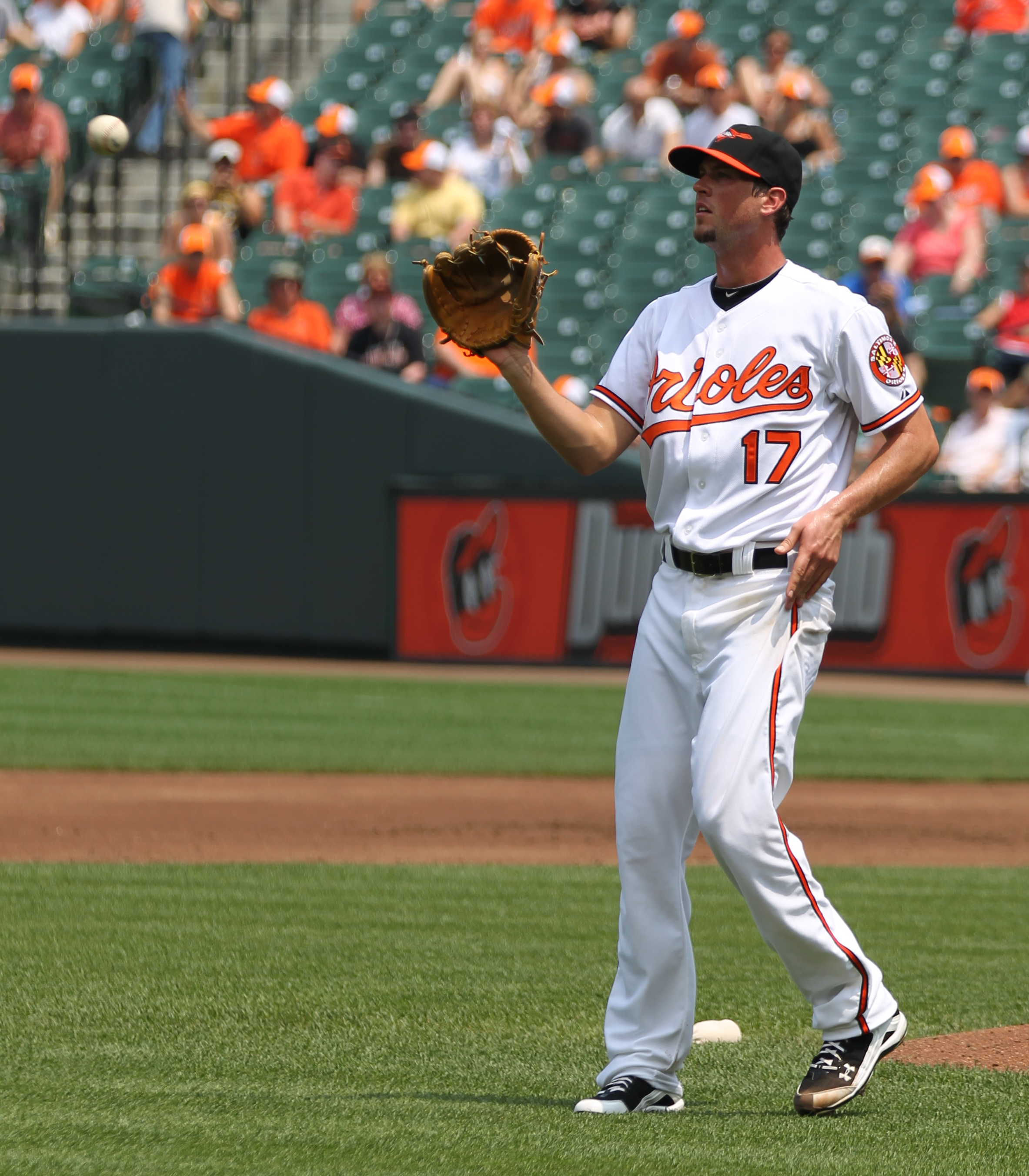 Tampa Bay Rays at Baltimore Orioles June 12, 2011.